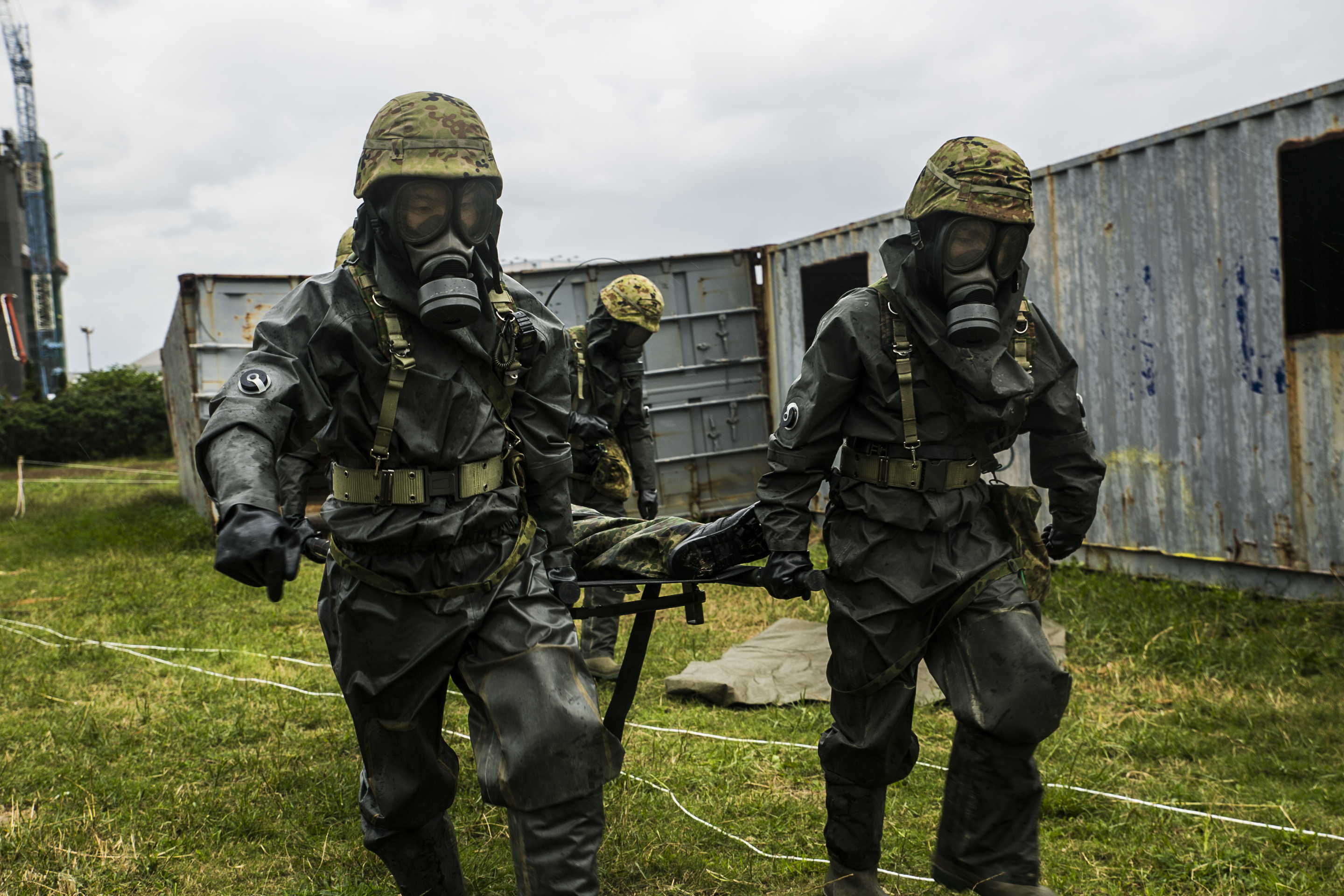 Members of the Japan Ground Self-Defense Force’s Special Weapons Protection Unit demonstrate casualty packaging and extraction drills in a simulated contaminated zone Dec. 1 at Camp Naha. The casualty evacuation was completed only after an immediate decontamination was done. An immediate decontamination is when casualties are sprayed with a solution to decontaminate them quickly, so they can be moved out of an affected area. The demonstration showed U.S. Marines with a chemical, biological, radiological and nuclear defense background their decontamination process. The JGSDF members are with JGSDF Nuclear Biological Chemical Unit, 15th Brigade. (U.S. Marine Corps photo by Lance Cpl. Tyler S. Giguere/Released)